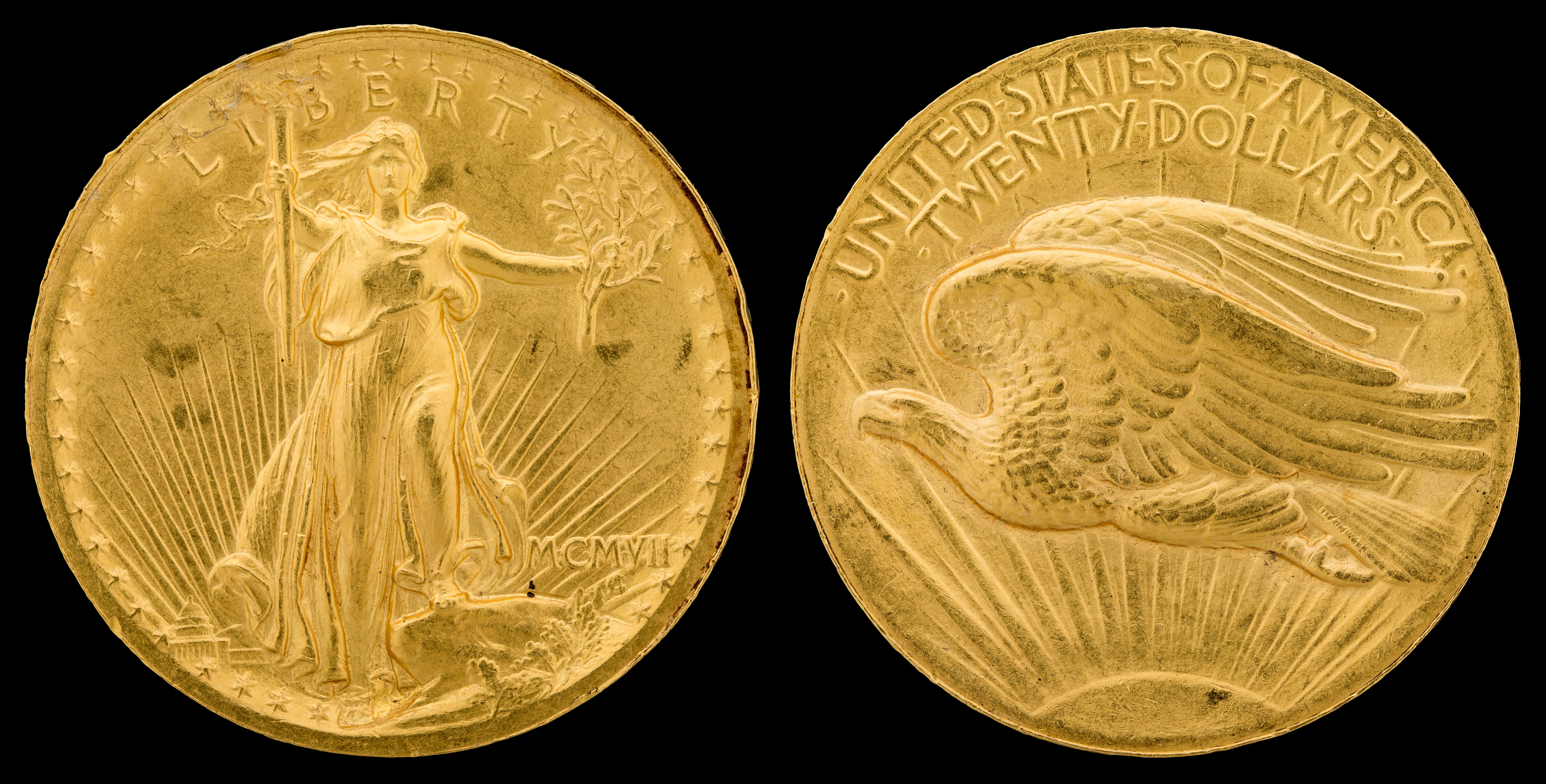 1907 G$20 Saint Gaudens (Roman, high relief)Gold (fineness 0.9000), 34mm, 33.436g, designed by Augustus Saint-GaudensJN2015-6766-67